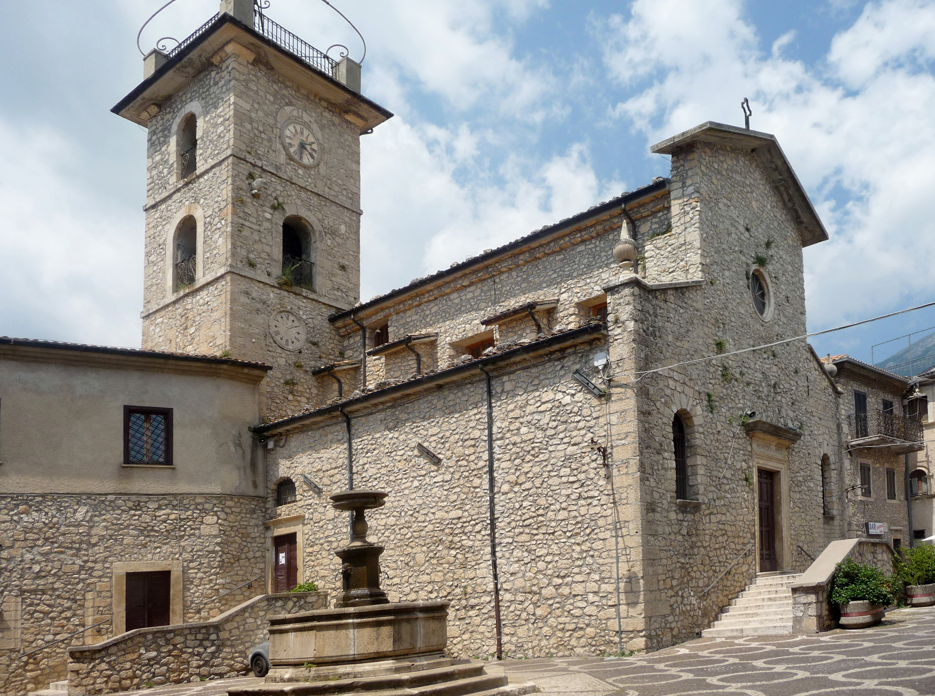 San Michele Arcangelo